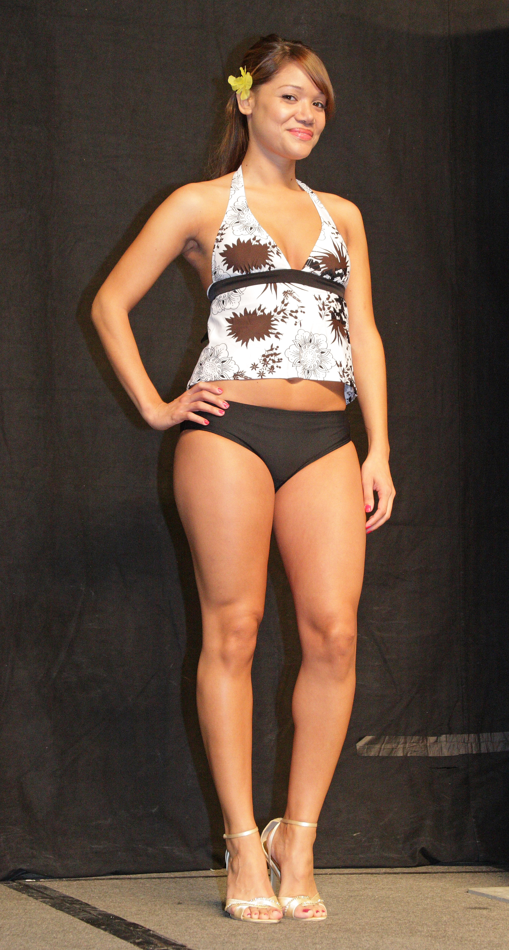 Run to the Sun is a cool store in Anchorage, Alaska that offers swim and resort wear as well as tanning. Every year as part of the Alaska's Womens Show, Run to the Sun has a fashion show offering the latest fashion styles for us sun/beach deprived locals. The show is great to watch. Photographing it a bit tricky since the lighting at the Sullivan Arena is tough (for me) to shoot. I've met a lot of great models through the show and hope to continue this - the women and men that Michelle uses are very classy and fun to shoot with. FYI - the shows were in April in the past but due to scheduling conflicts the Womens Show moved to September so in 2010 we had two fashion shows. You won't hear me complaining!